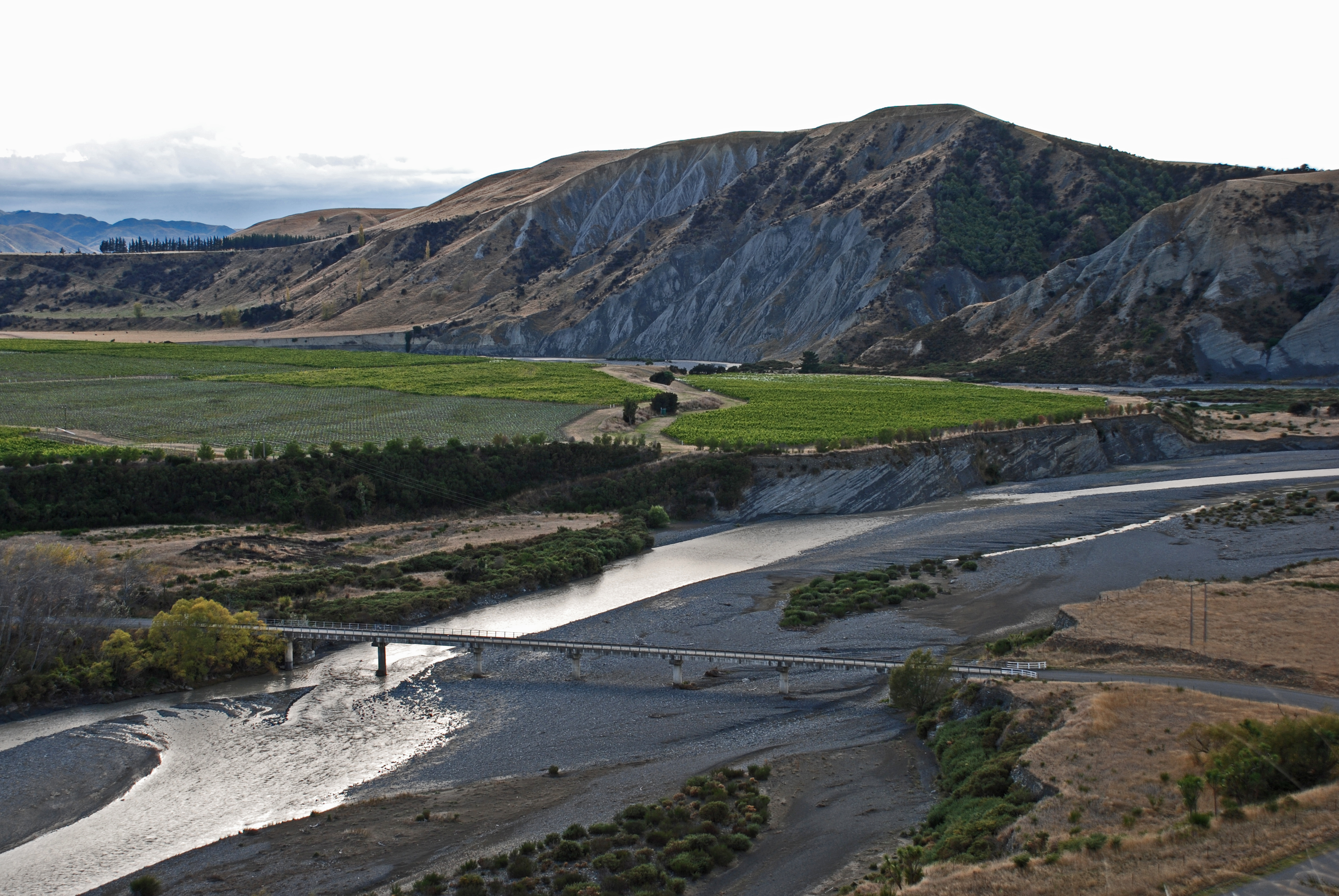 Medway Bridge, Awatere Valley, Marlborough, New Zealand.